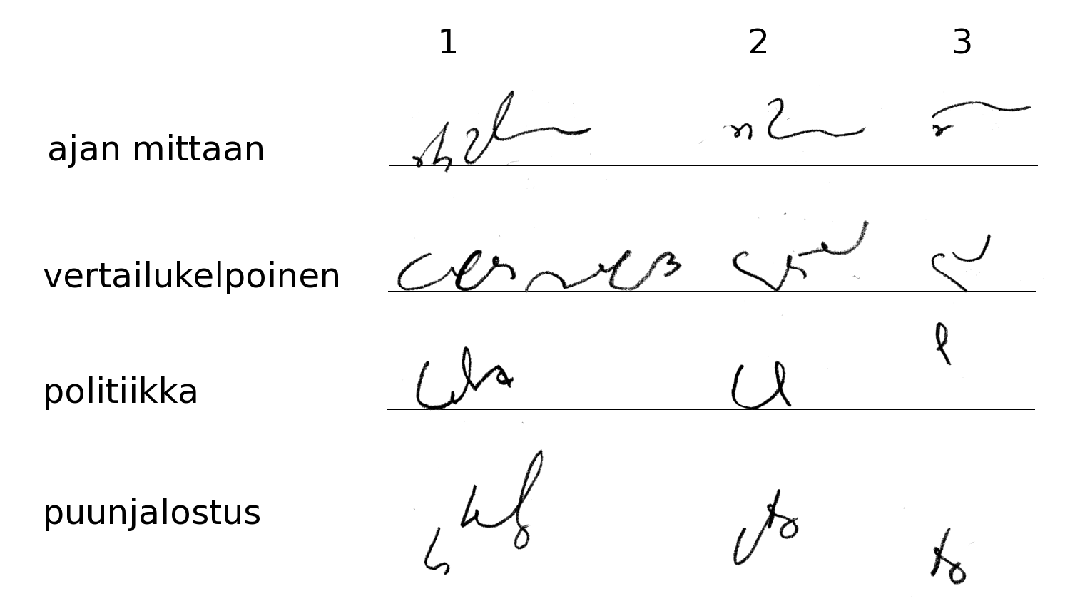 Examples of abbreviations in Finnish shorthand (Neovius-Nevanlinna system). For each word or phrase, three variants are shown: 1) completely written, 2) abbreviated and 3) heavily abbreviated. The abbreviated forms are based on a book by Veikko Sorsa: "Pikakirjoituksen lyhennehakemisto", 1981.